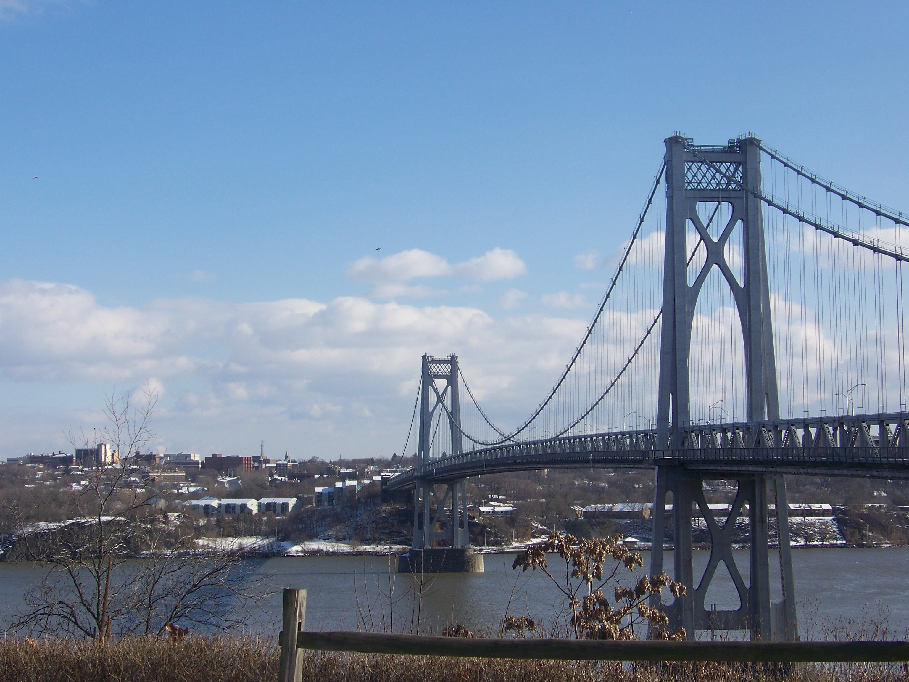 The Mid-Hudson Bridge over the Hudson River, seen from the Ulster County side